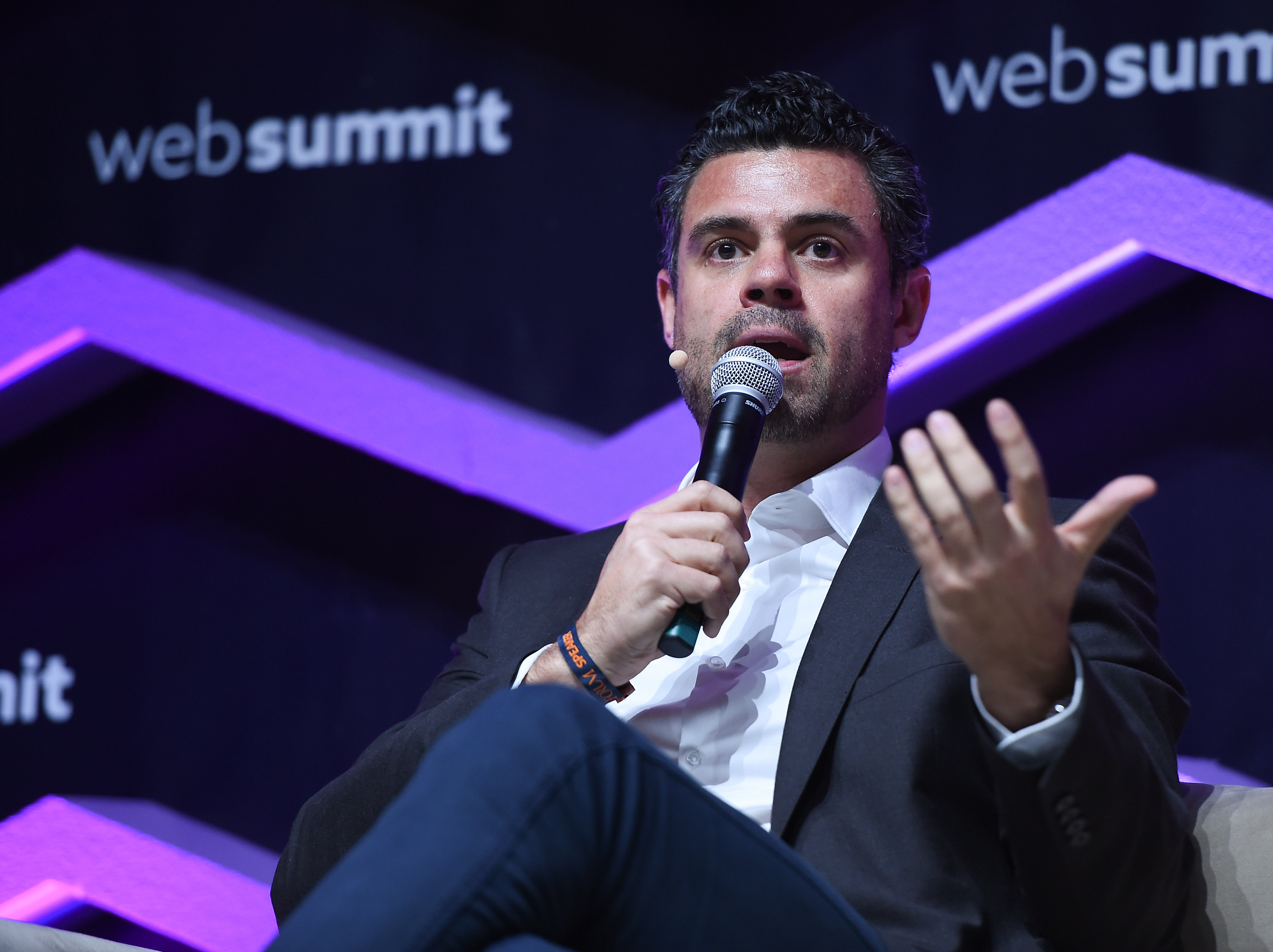 7 November 2017; Pedro Pinto, Managing Director, UEFA on the SportsTrade stage during the opening day of Web Summit 2017 at Altice Arena in Lisbon. Photo by Cody Glenn/Web Summit via Sportsfile